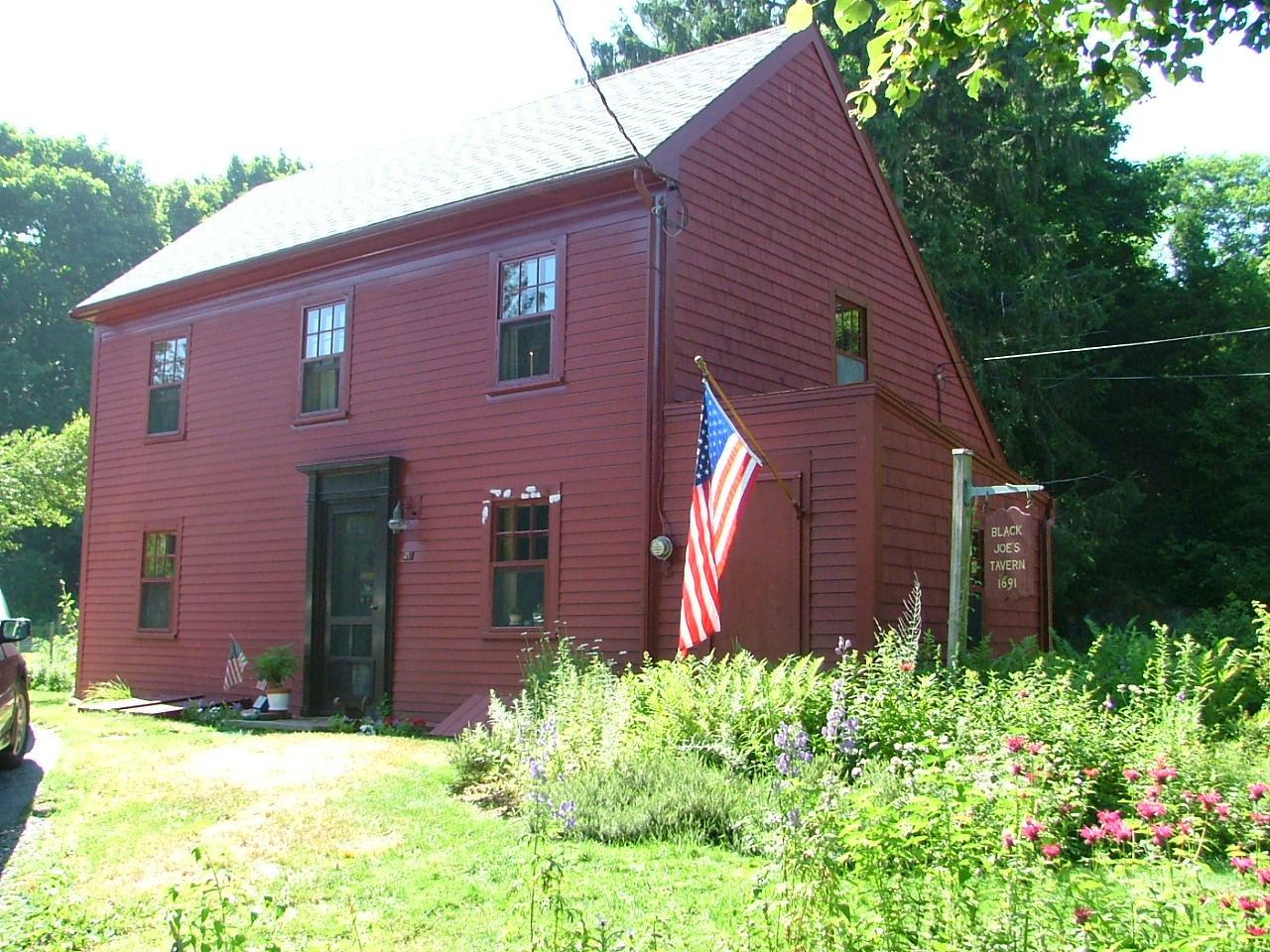 Black Joe's Pond (Black Joe's Tavern 1691), Home of the "Joe Frogger" cookie. Photo July of 2010